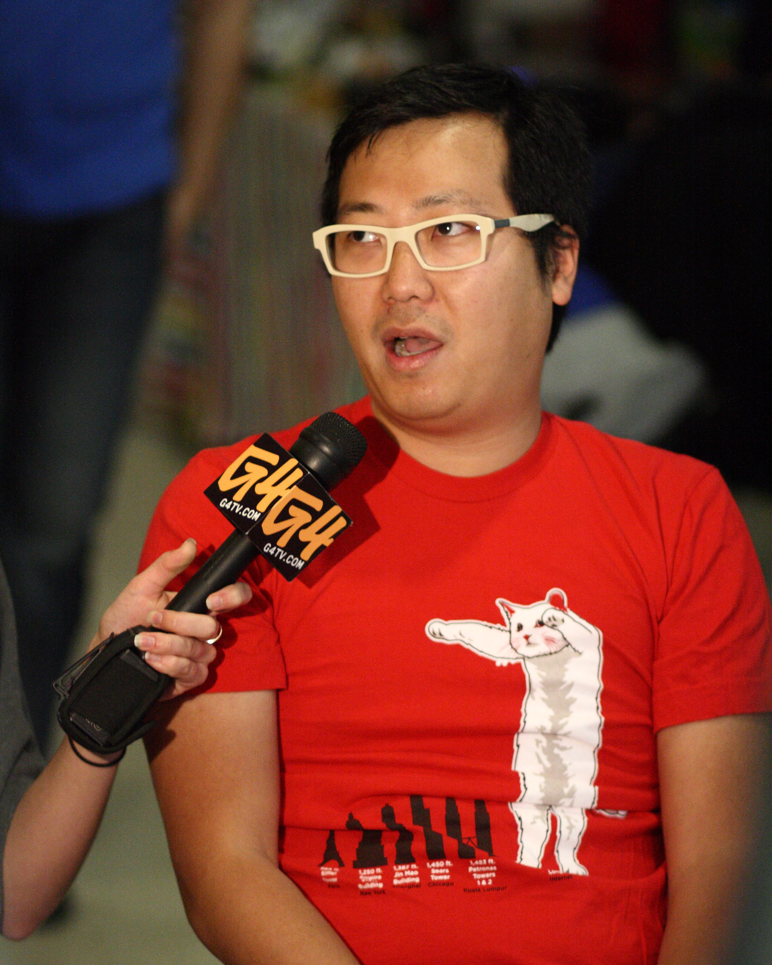 Ben Huh, owner of I Can Has Cheezburger?, being interviewed by a G4 journalist at ROFLCon II